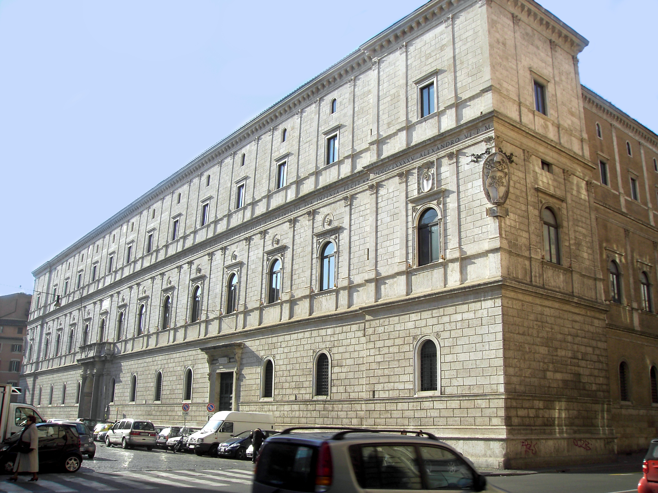 Façade of the Palazzo della Cancelleria in Rome. The smaller door is the entrance to the minor basilica of San Lorenzo in Damaso.